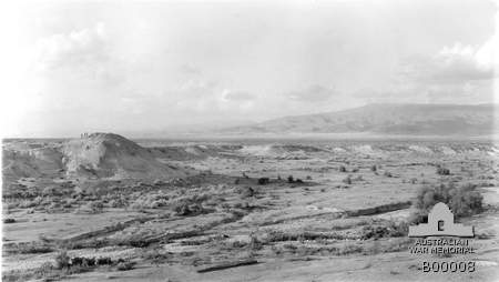 Ottoman Empire: Palestine, Jordan River. Wady Nimrin which junctions the Jordan at Ghoraniye, showing the Pimple, the site of repulse of the enemy by 1st Australian Light Horse Brigade.